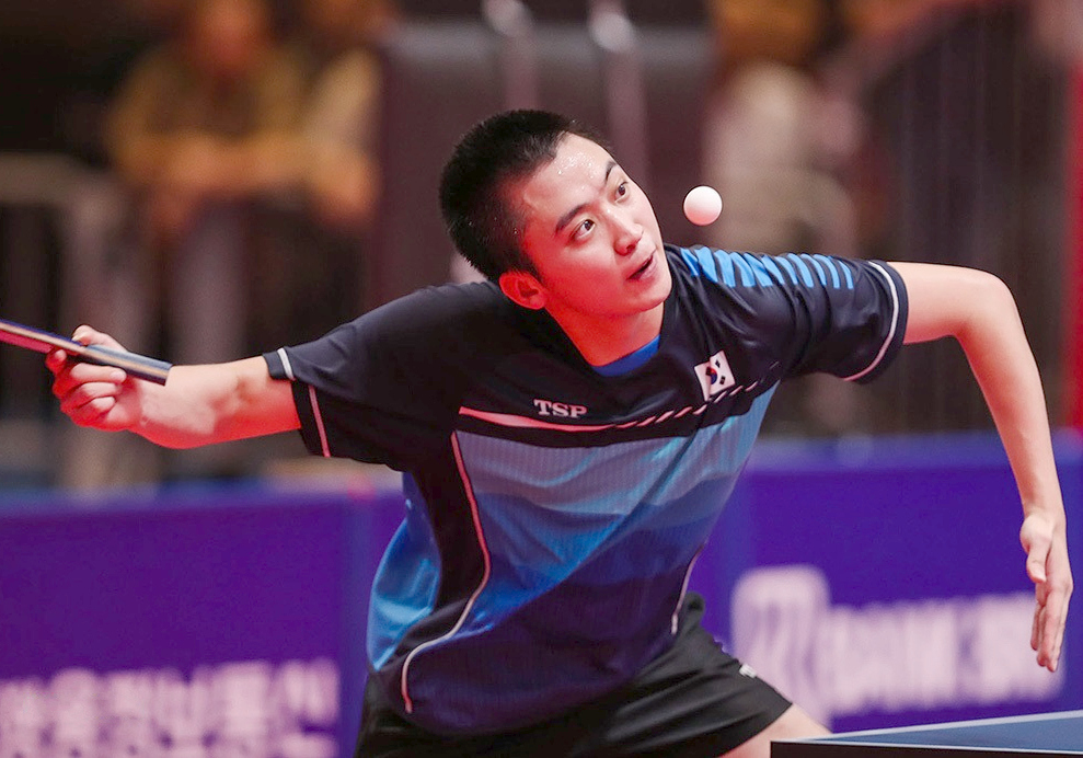 Table tennis at the 2018 Asian Games – Men's singles